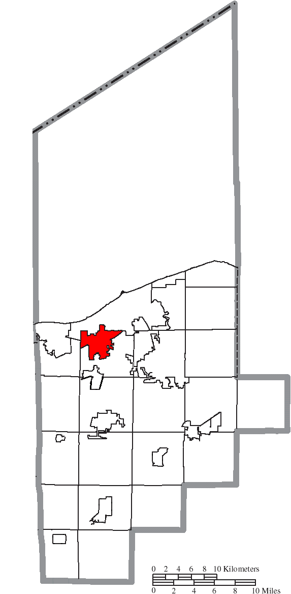 Map of the municipal and township boundaries of Lorain County, Ohio, United States, as of the 2000 census, with the location of the city of Amherst highlighted. Township borders are shown only in unincorporated areas in order to differentiate incorporated and unincorporated areas more clearly.